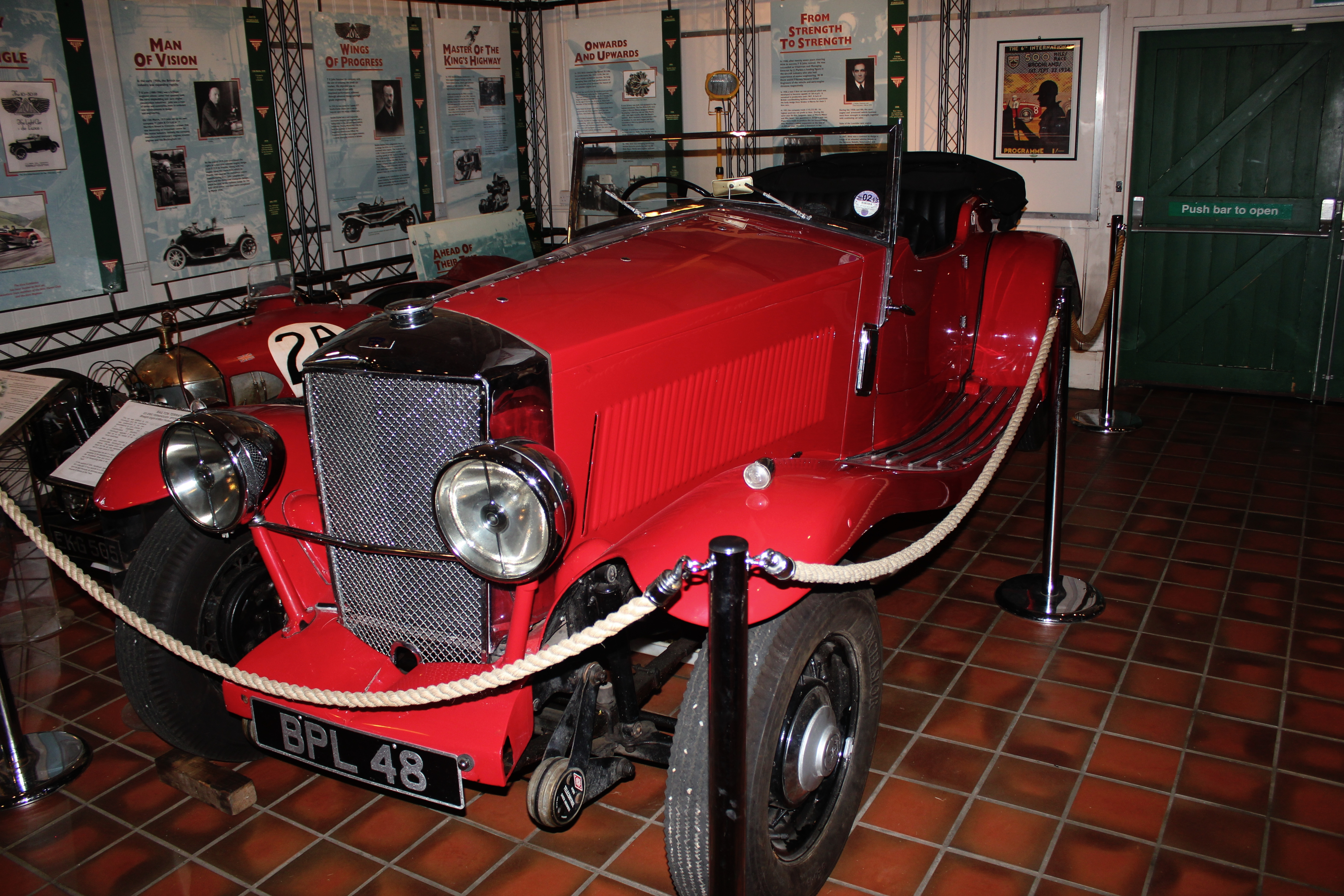 1934 Railton Terraplane, Registration BPL 48